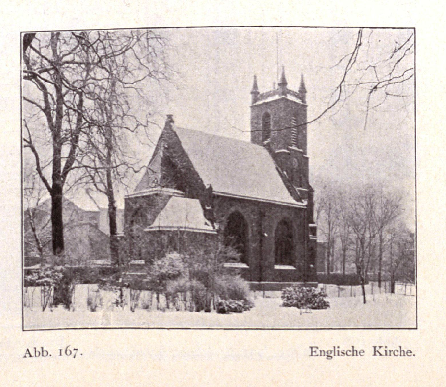 Christ_Church,_im_Garten_des_englischen_Generalkonsulats_an_der_Prinz-Georg-Straße_in_Düsseldorf-Pempelfort,_erbaut_1897_bis_1899,_Architekt_August_Zögen,_Abb._167 Englische_Kirche.jpg